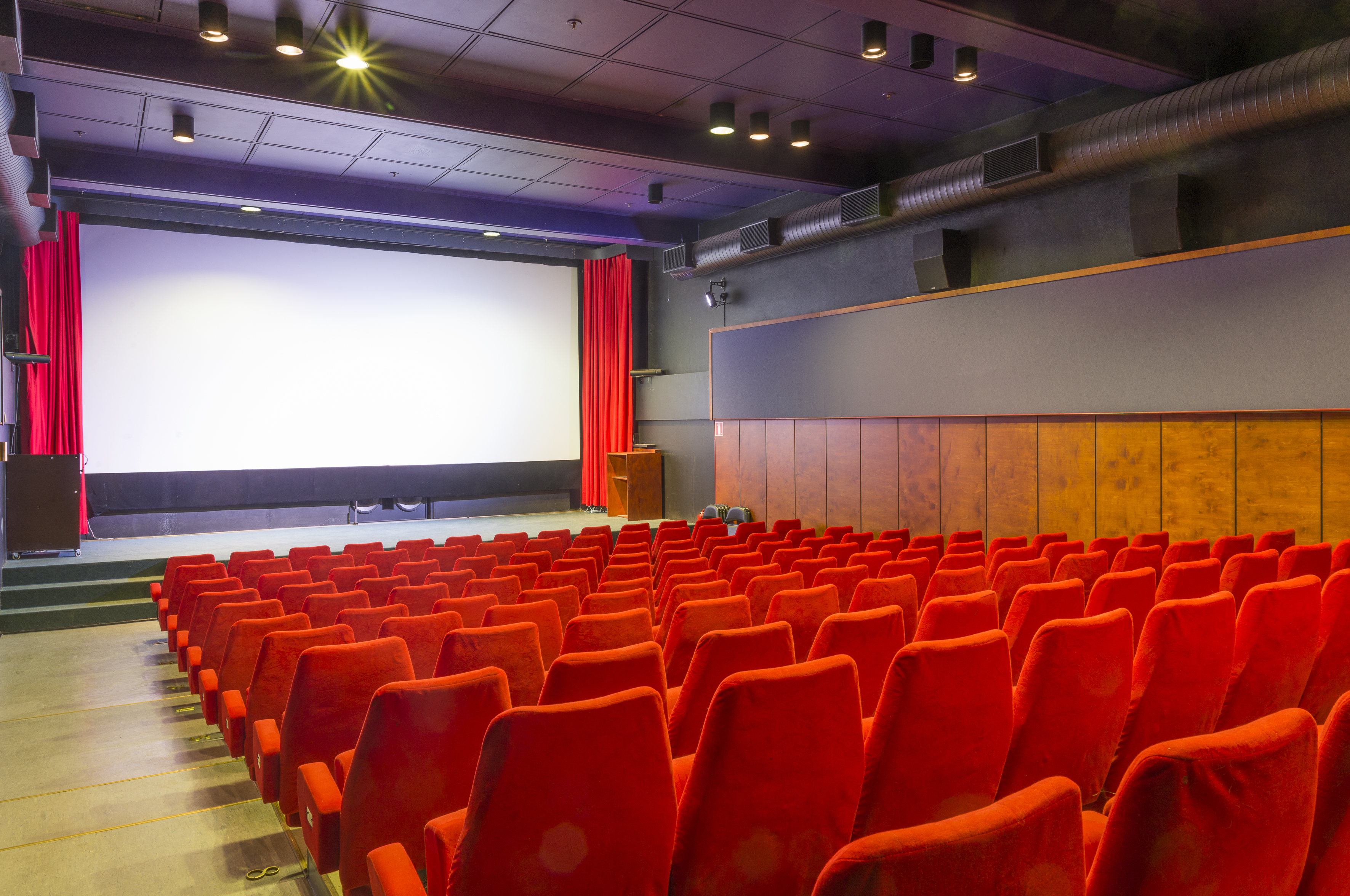 Elokuvateatteri Andorra